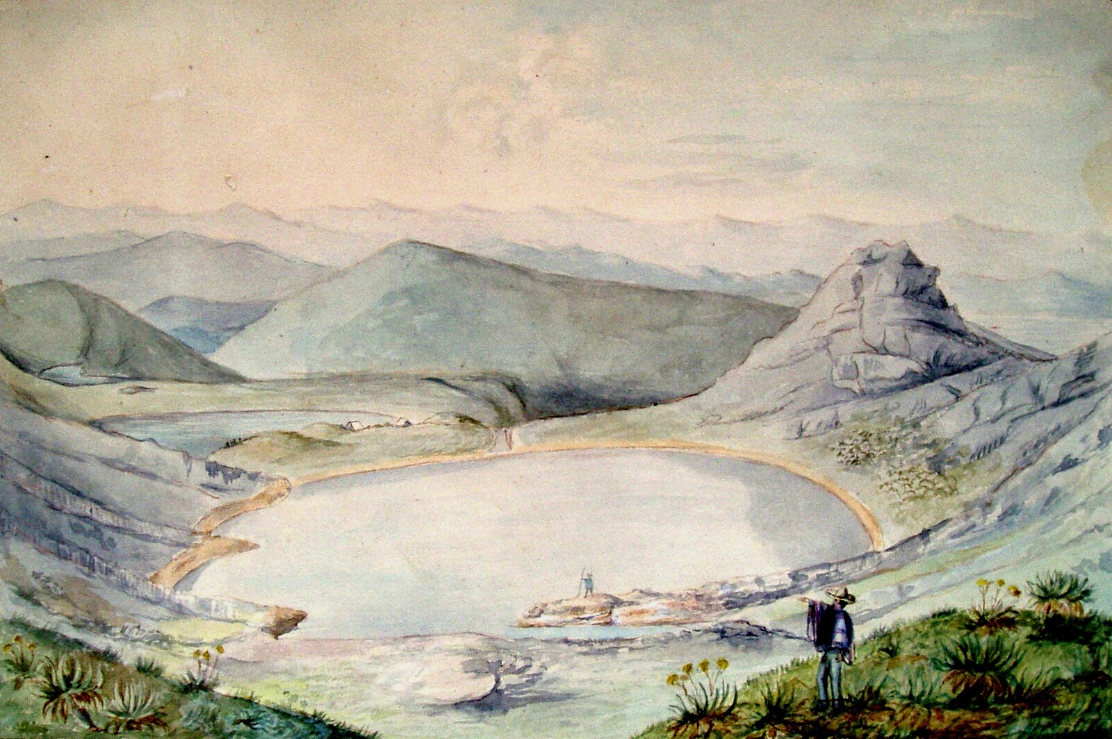 Lagunas de Siecha, Parque Nacional Natural Chingaza, Central de Colombia